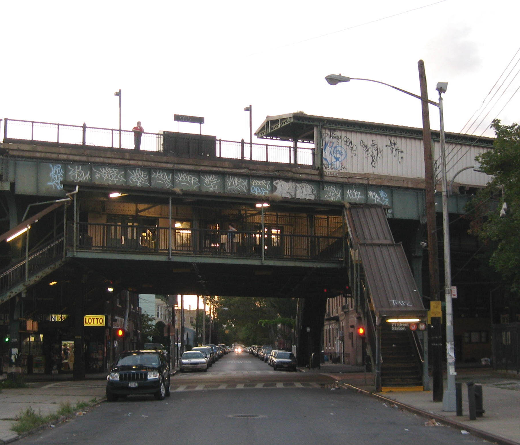 Looking northwest at en:71st Street (BMT West End Line) street stair at dusk of a sunny day